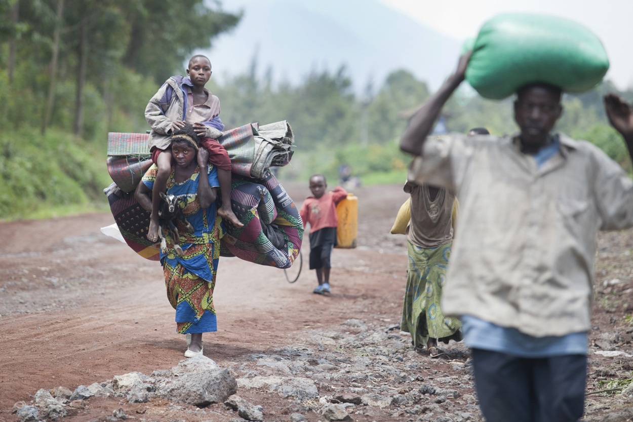 IDPs arrive in Munigi as Bosco Ntaganda fighters approach from Goma, the 1st of March 2013. © MONUSCO/Sylvain Liechti